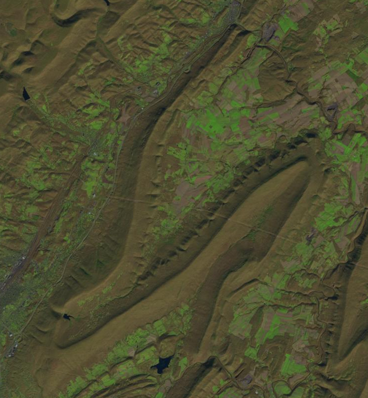 Landsat image of Sinking Valley (center), a valley in Blair County, Pennsylvania. The ridge that forms a V shape around the valley is called Brush Mountain, and Canoe Mountain is to the right of the V. The river running diagonally in the upper right is the Little Juniata River. The town of Tyrone is near the top center, and Altoona is to the left. Canoe Creek State Park is near bottom center.